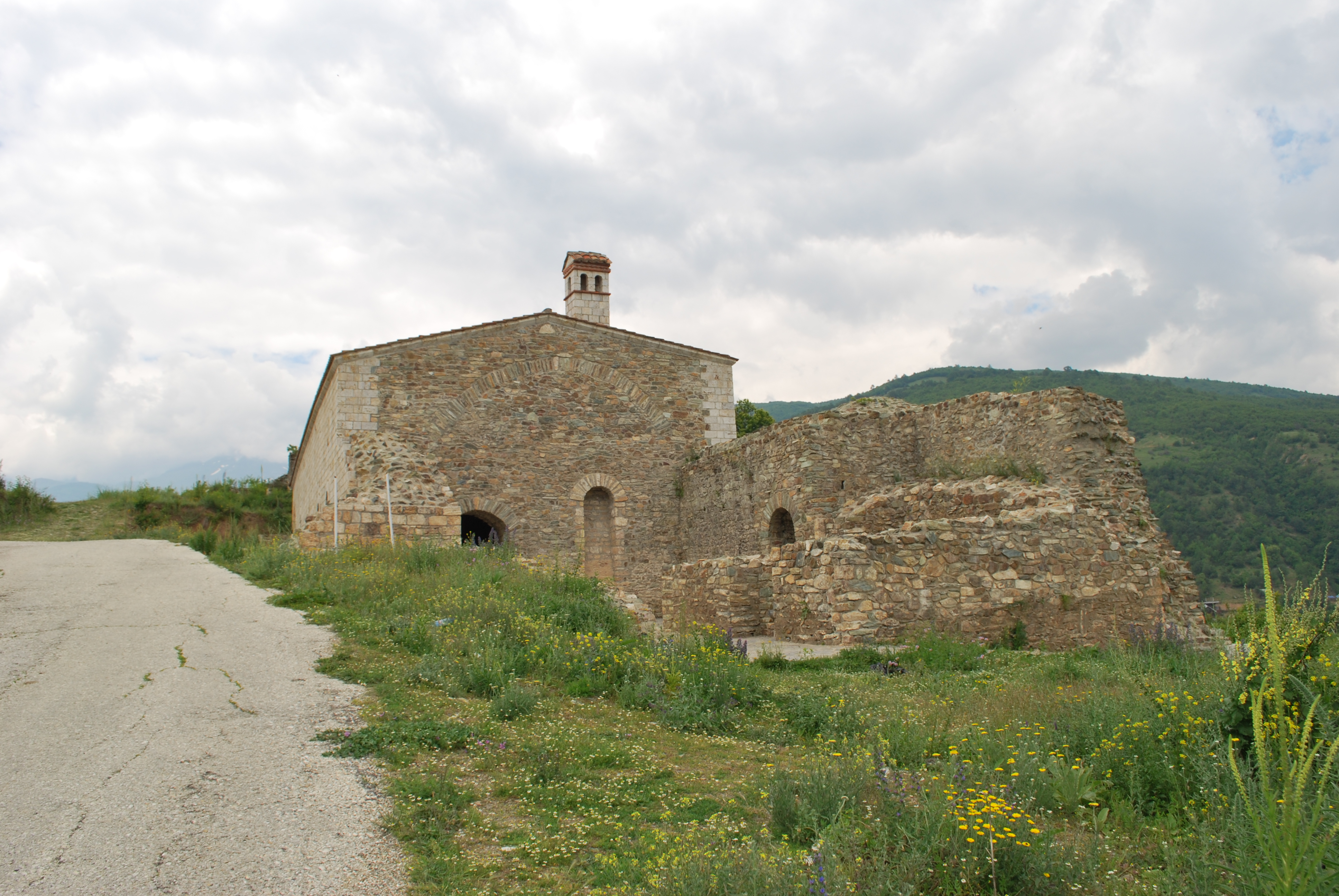 Tetovo Fortress, Macedonia